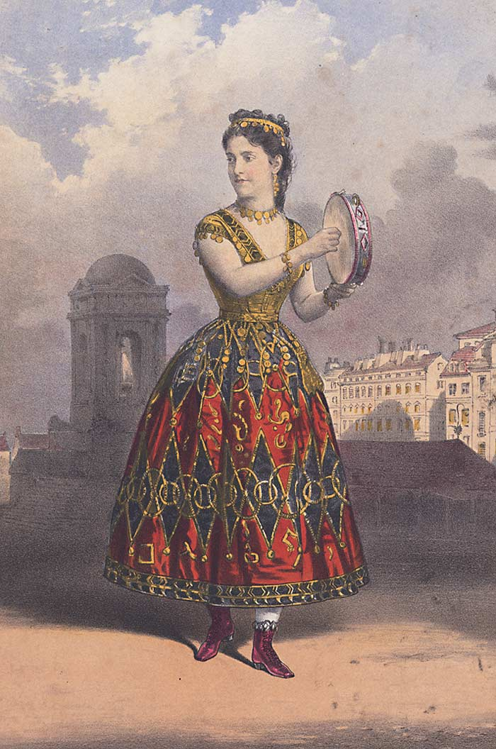 Adelina Patti (19 February 1843 – 27 September 1919) was a highly acclaimed 19th-century opera singer. Here she is shown as Esmeralda circa 1870.